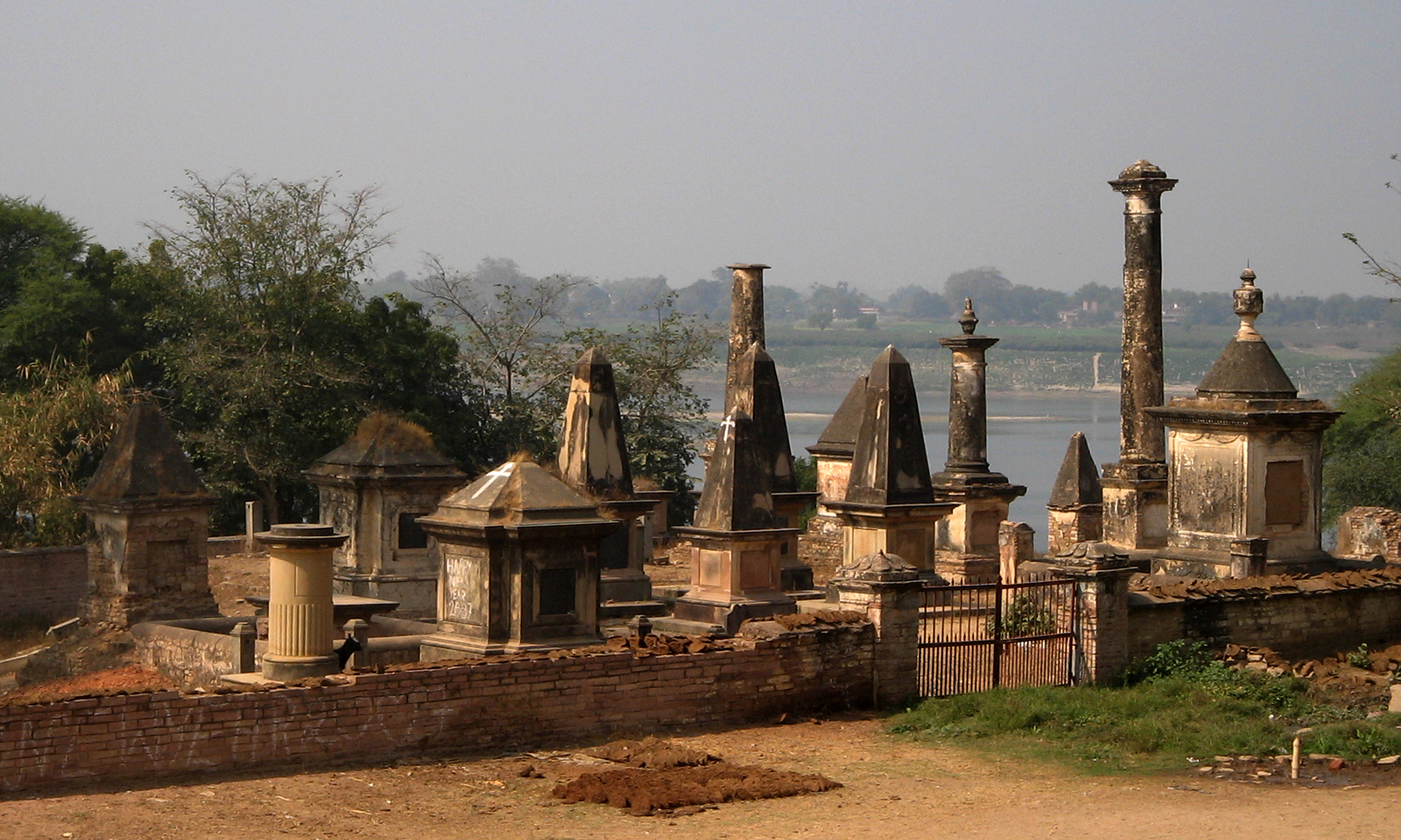 British Cemetery